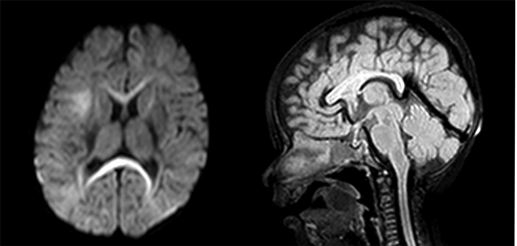 Splenial Infarct / Boomerang Sign, Sturge Weber Syndrome / Vein of Galen Malformation